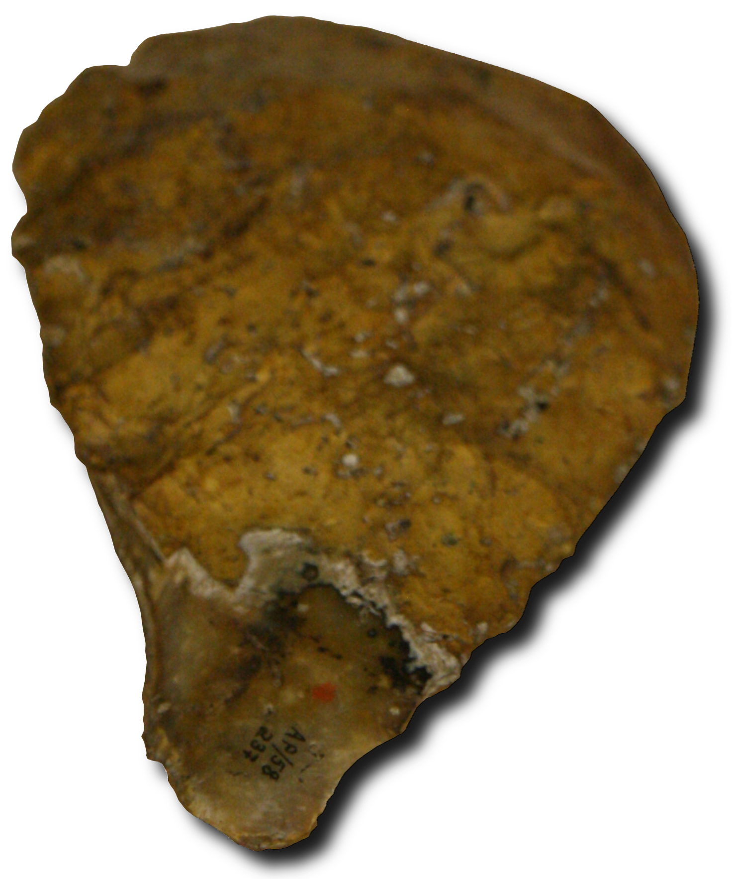 An old biface made by Neanderthalians at less 100,000 BP, but reused and recut by Magdalenians near 20,000 BP. Found in the Abri Pataud rock shelter, Les Eyzies-de-Tayac, Dordogne, Aquitaine, France.